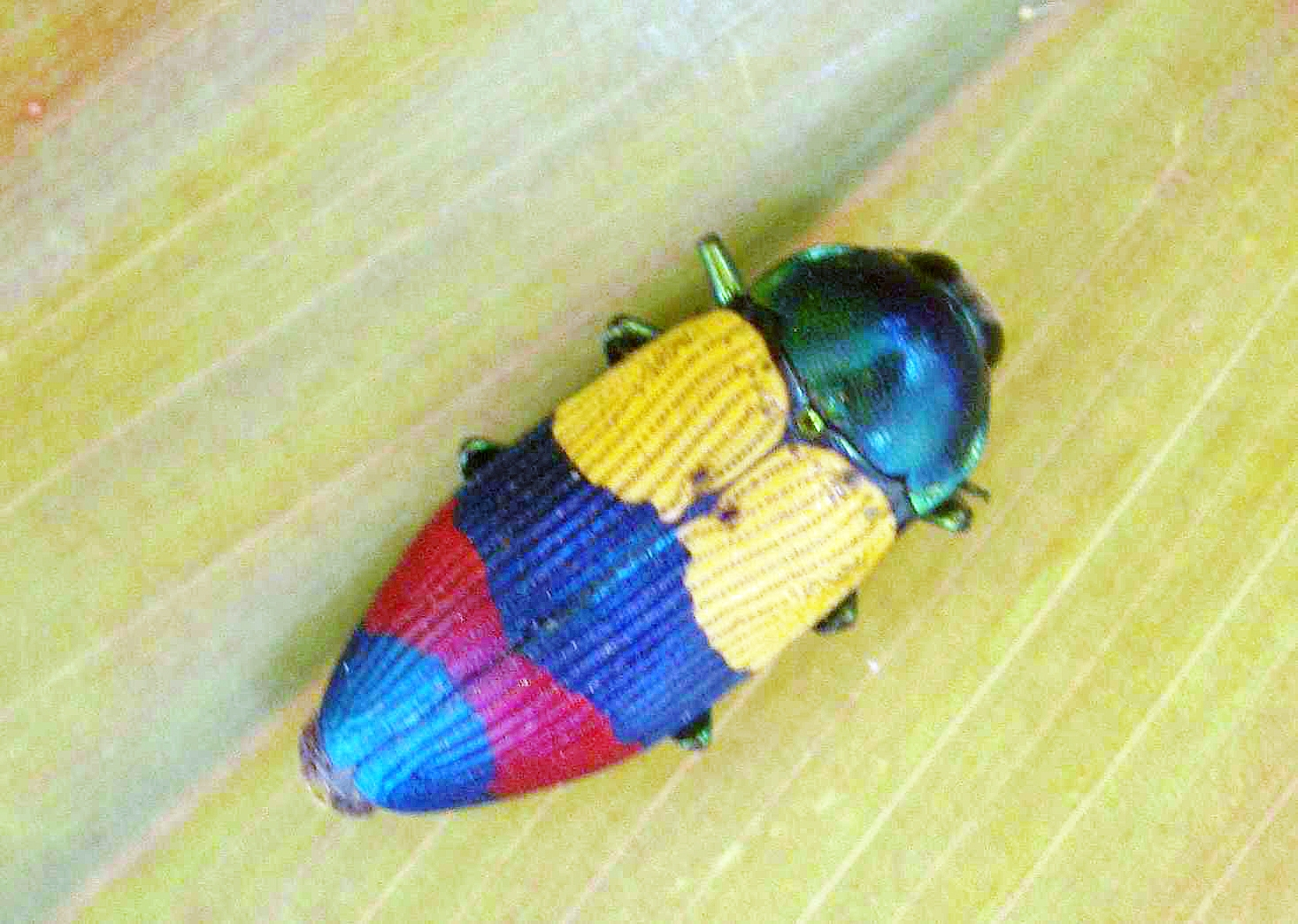 I took this photo myself and am happy for anyone to make use of it.John Hill 02:04, 18 December 2006 (UTC) I have just had an email today from an expert who says the species name for this beetle should read: Temognatha alternata. John Hill 23:43, 14 April 2007 (UTC)